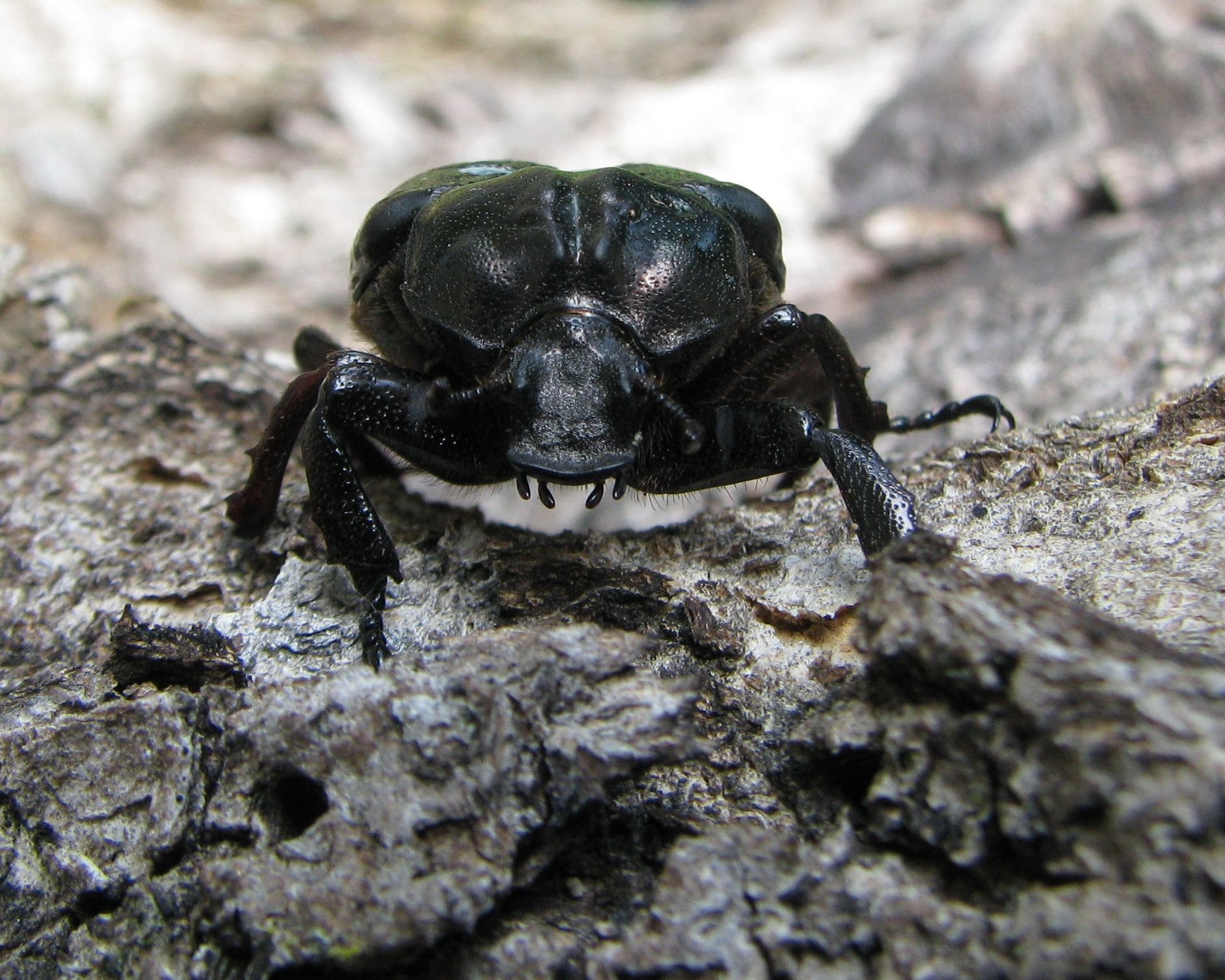 Hermit beetle Osmoderma eremita male. It shows clearly the larger structures on the front.